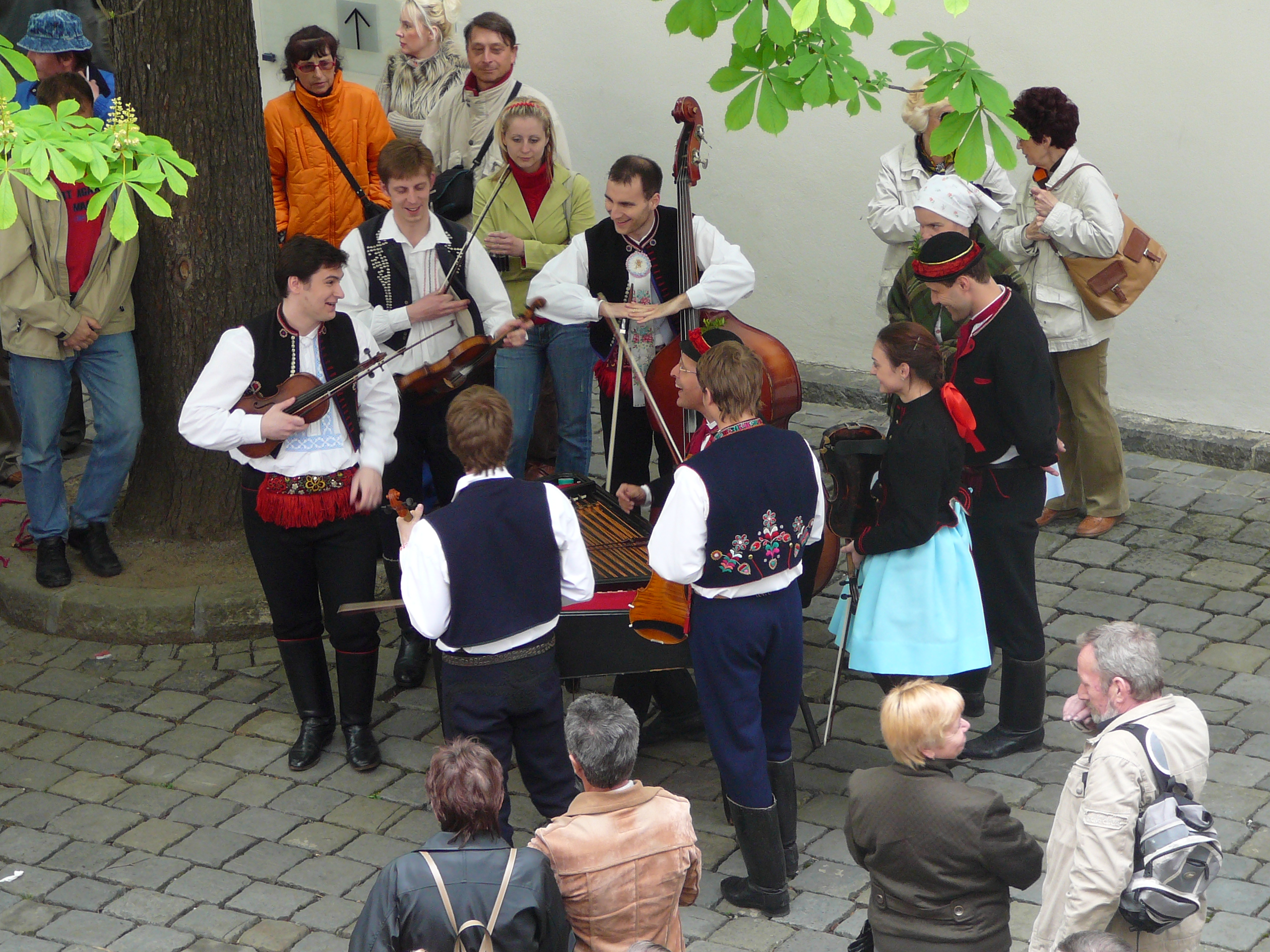 2008 May Day at Špilberk.